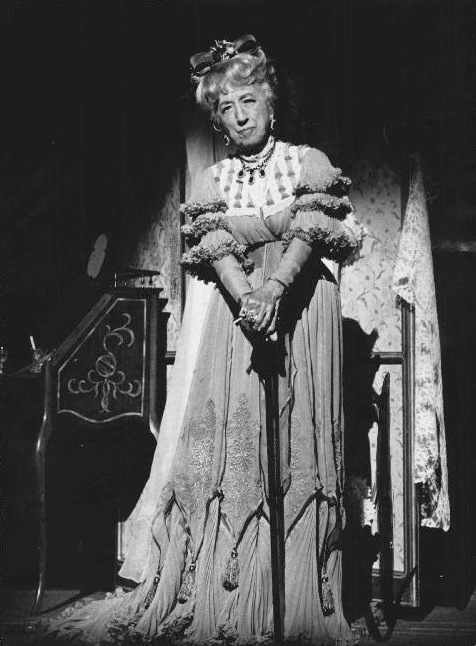 Publicity photo of American actress, Margaret Hamilton, promoting her role as Madame Armfeldt in the 1974 national tour of A Little Night Music.